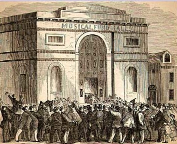 Woodcut